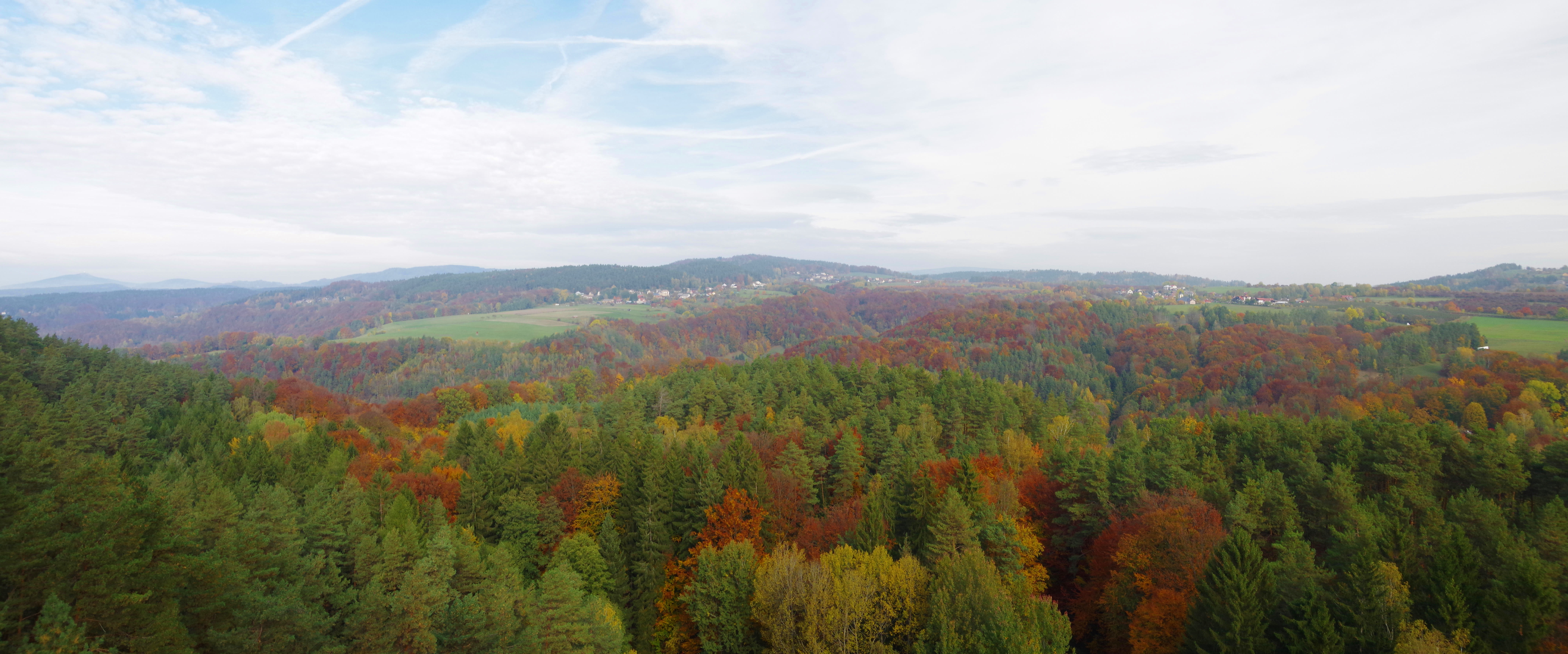 View from Klokocske skaly